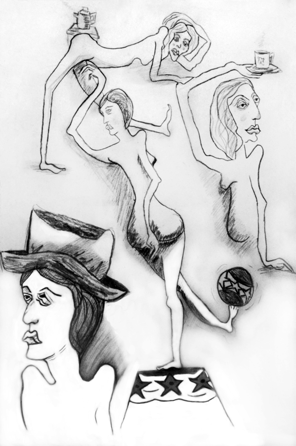 An early sketch by the artist Matuschka. She was 18 years old at the time.